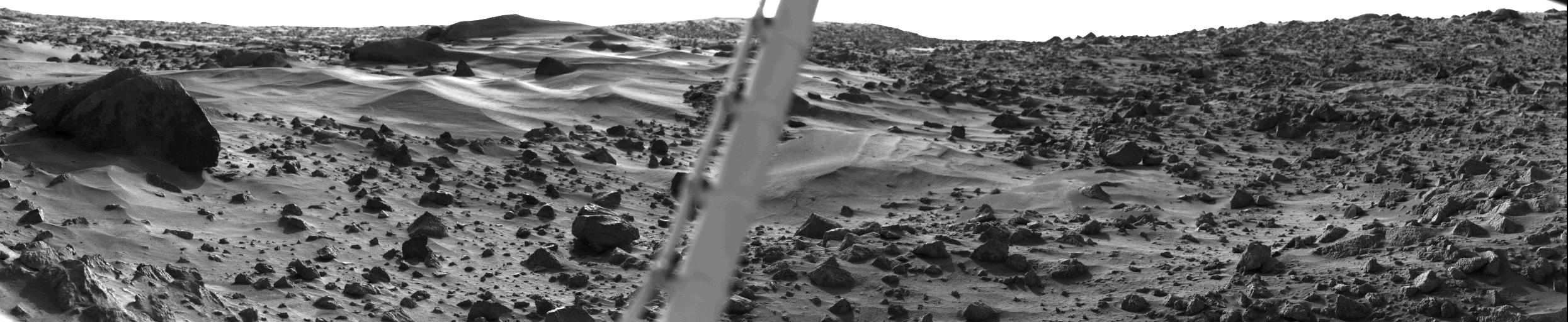 This spectacular picture of the Martian landscape by the Viking 1 Lander shows a dune field with features remarkably similar to many seen in the deserts of Earth. The dramatic early morning lighting - 7:30 a.m. local Mars time - reveals subtle details and shading.